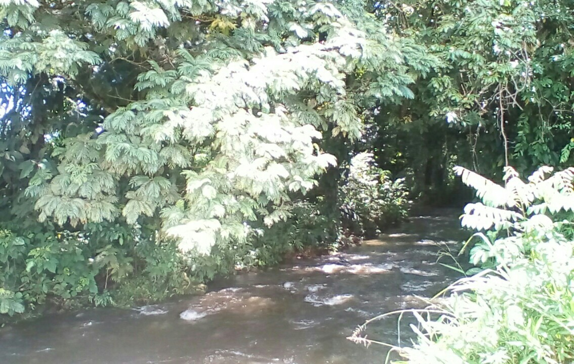 View of the Roxana River